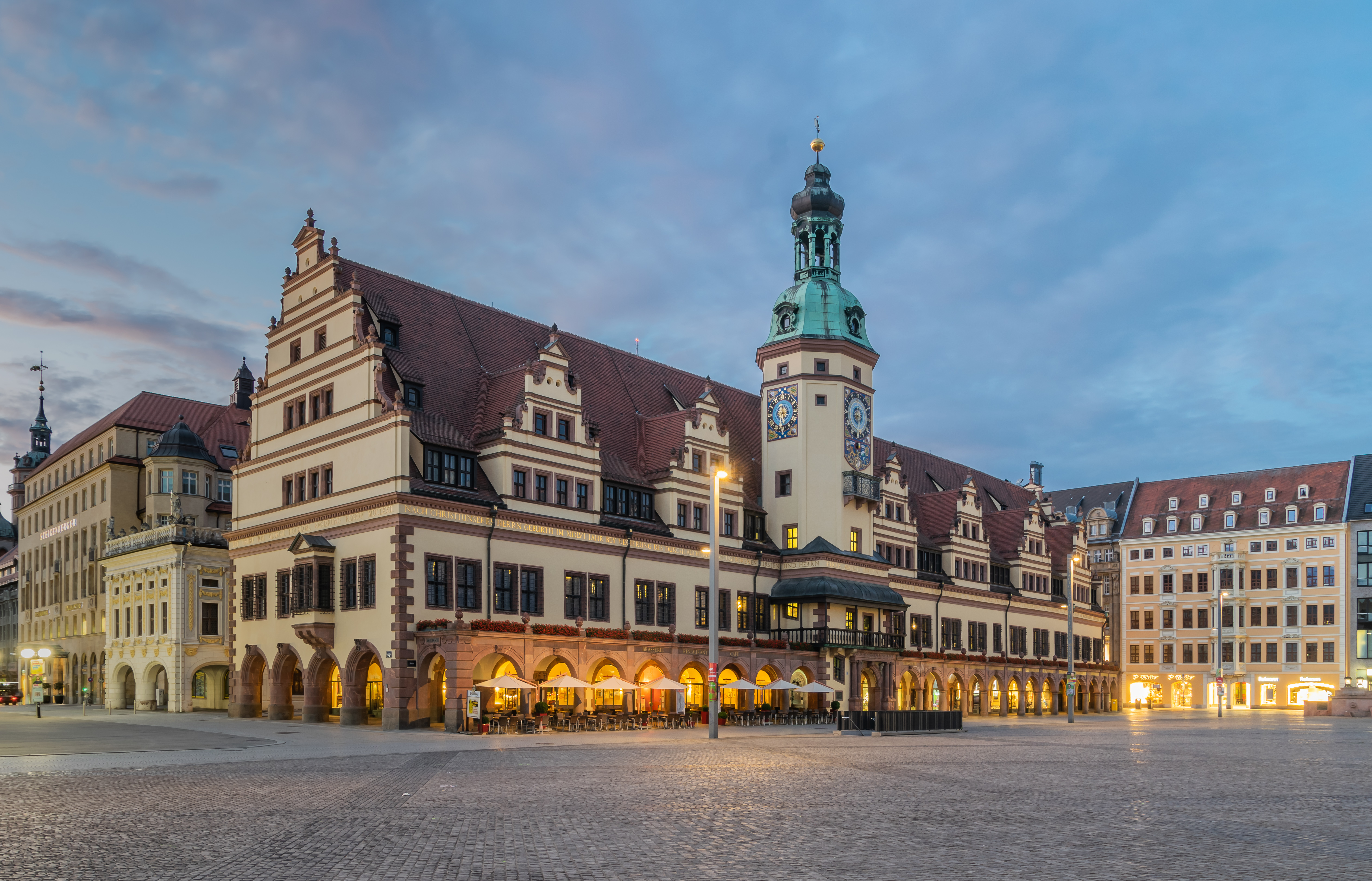 Old city hall of Leipzig, Saxony, Germany